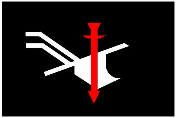 Flag of the "Landvolkbewegung", Germany, 1929 (own work)